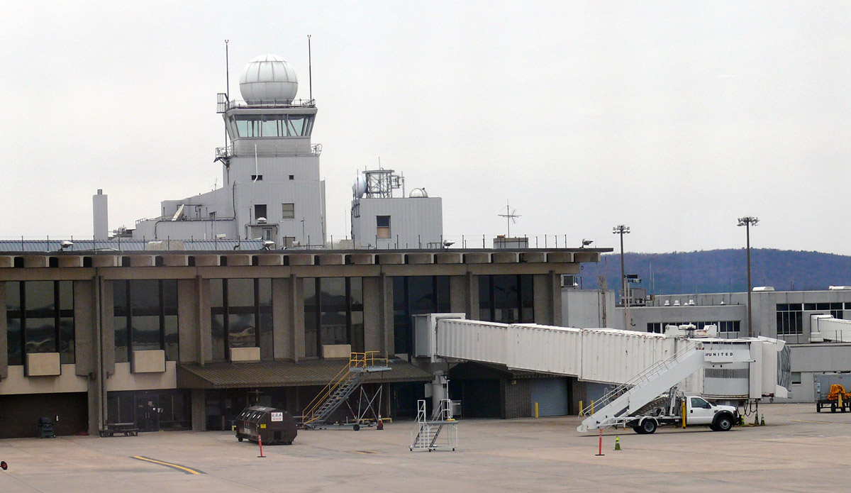 Bradley Airport 2011 BDL